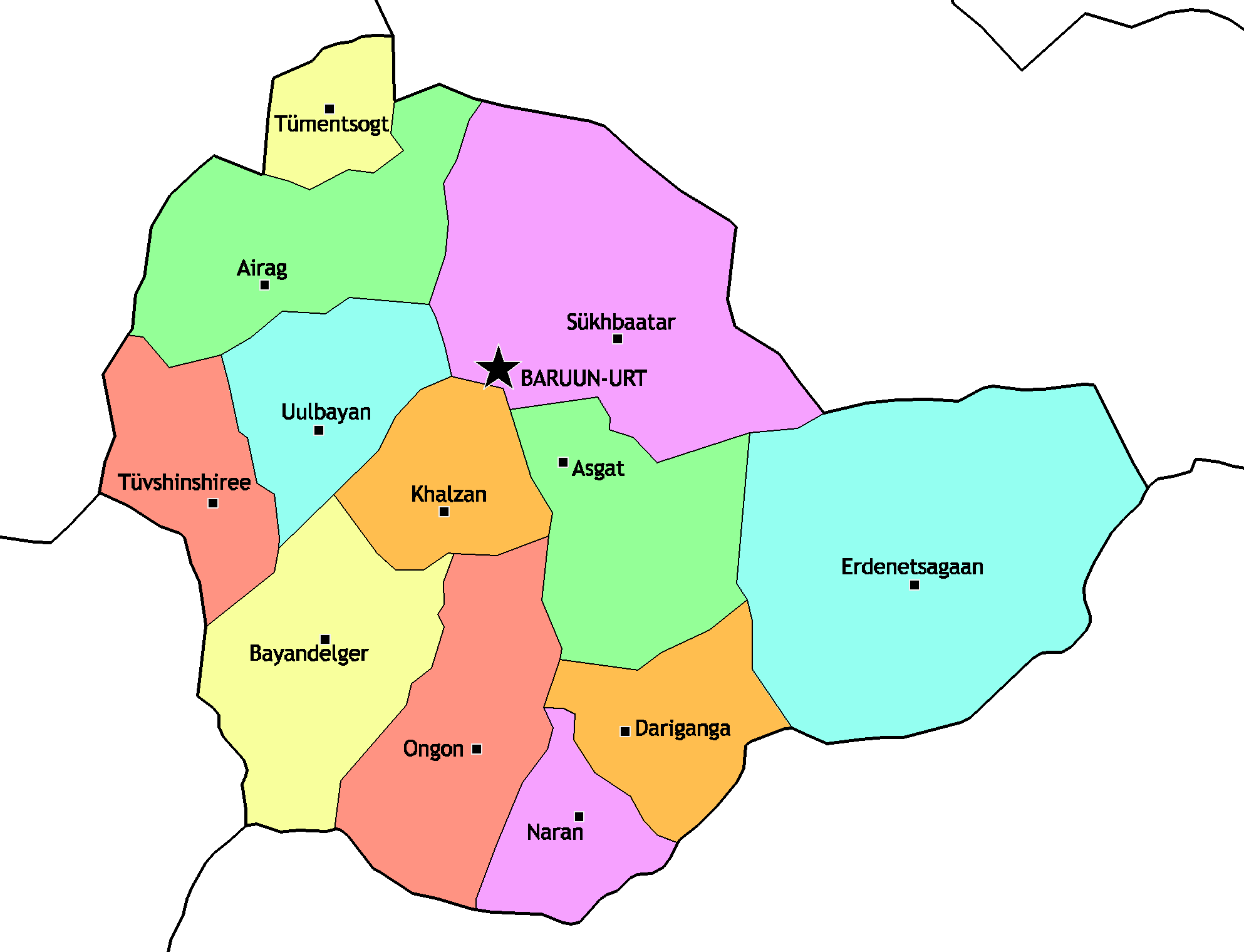 Map of the Sukhbaatar aimag with the sums